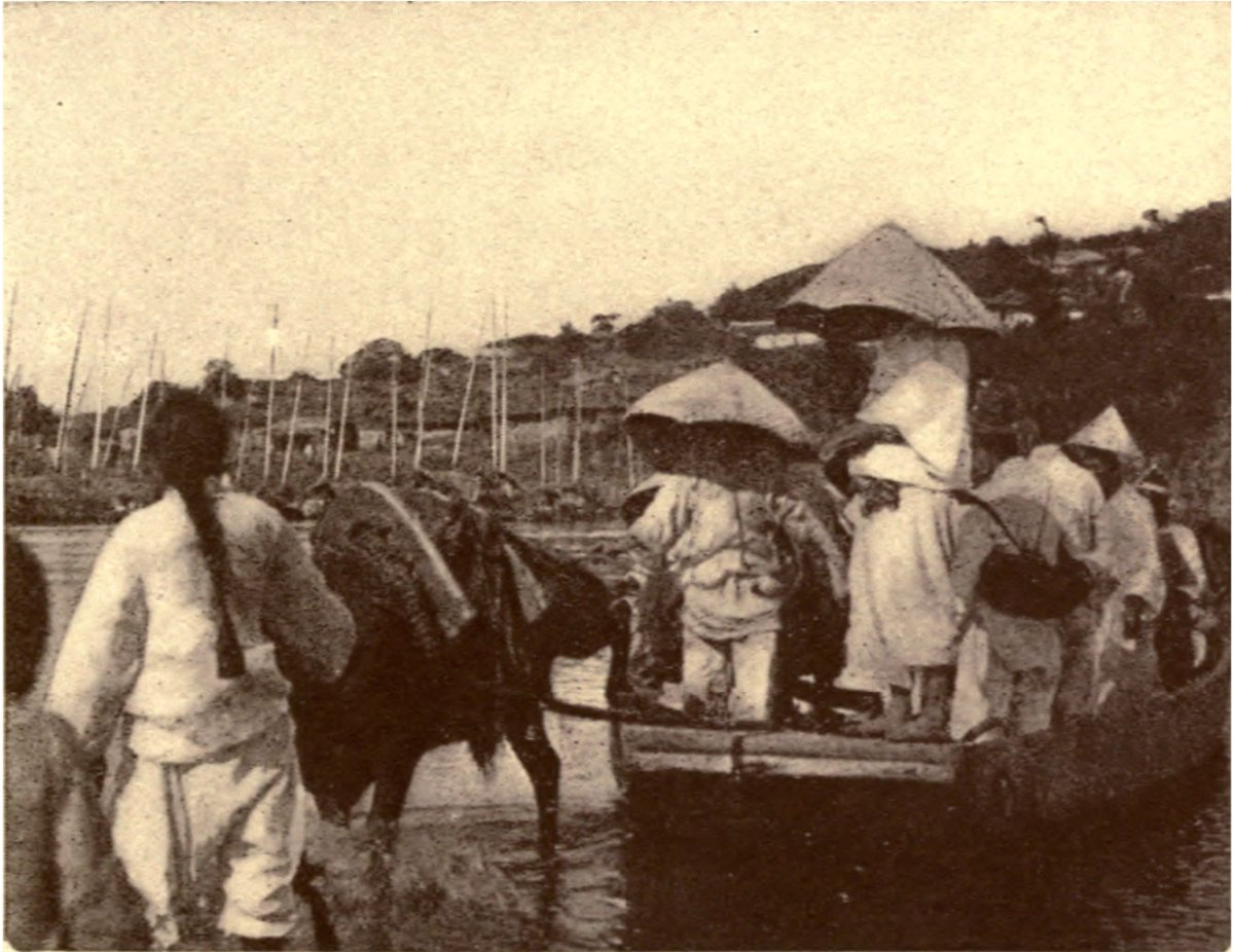 Ferry across the Imjin River, taken during the author's honeymoon trip, 1889